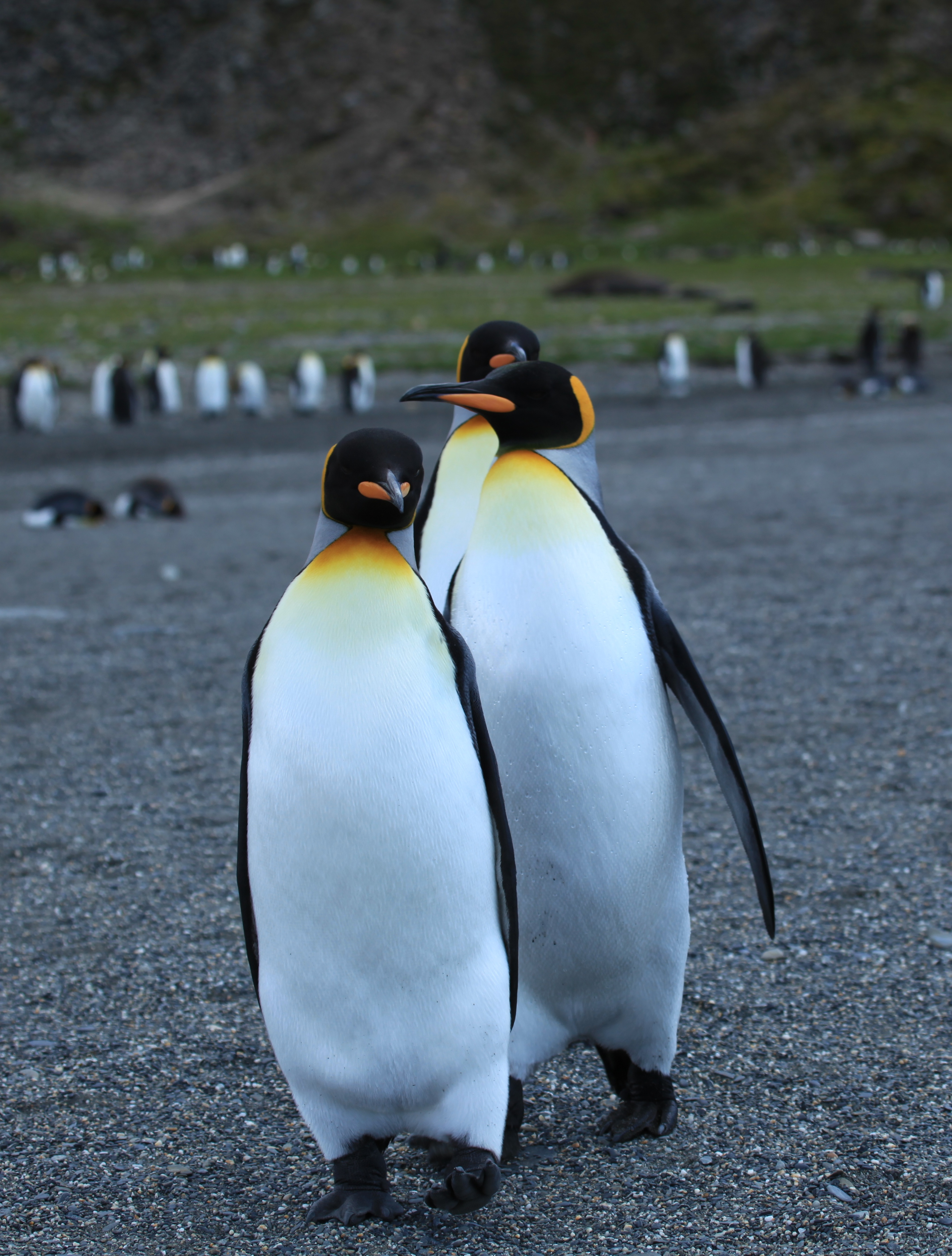 At St. Andrews Bay, South Georgia.